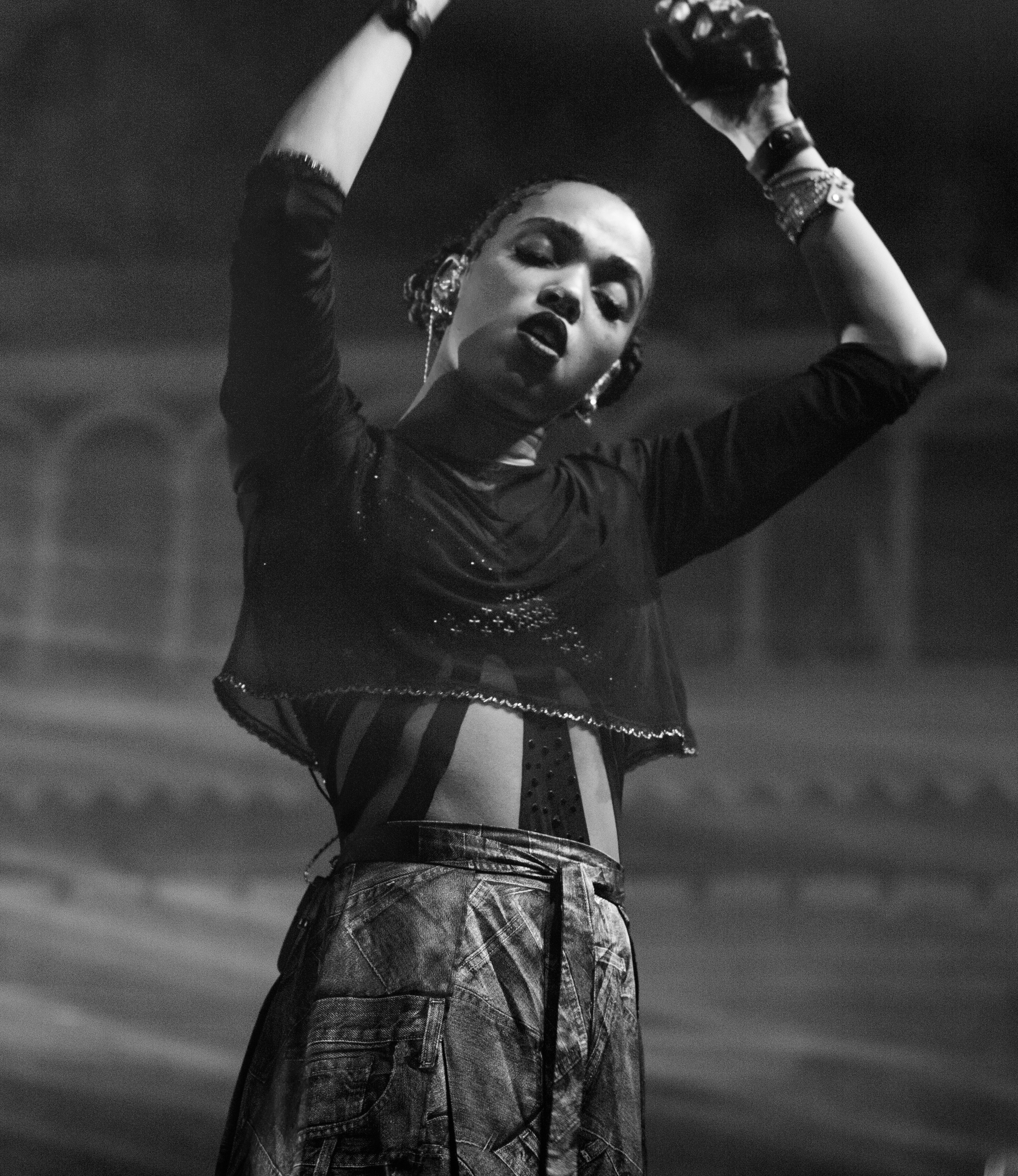 FKA Twigs live in Paradiso, Amsterdam in 2015